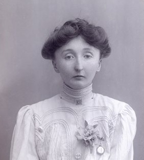 In 1911 at Eagle House Aeta Lamb planted a tree to celebrate her imprisonment. The picture was taken at Eagle House near Batheaston by Colonel Linley Blathwayt